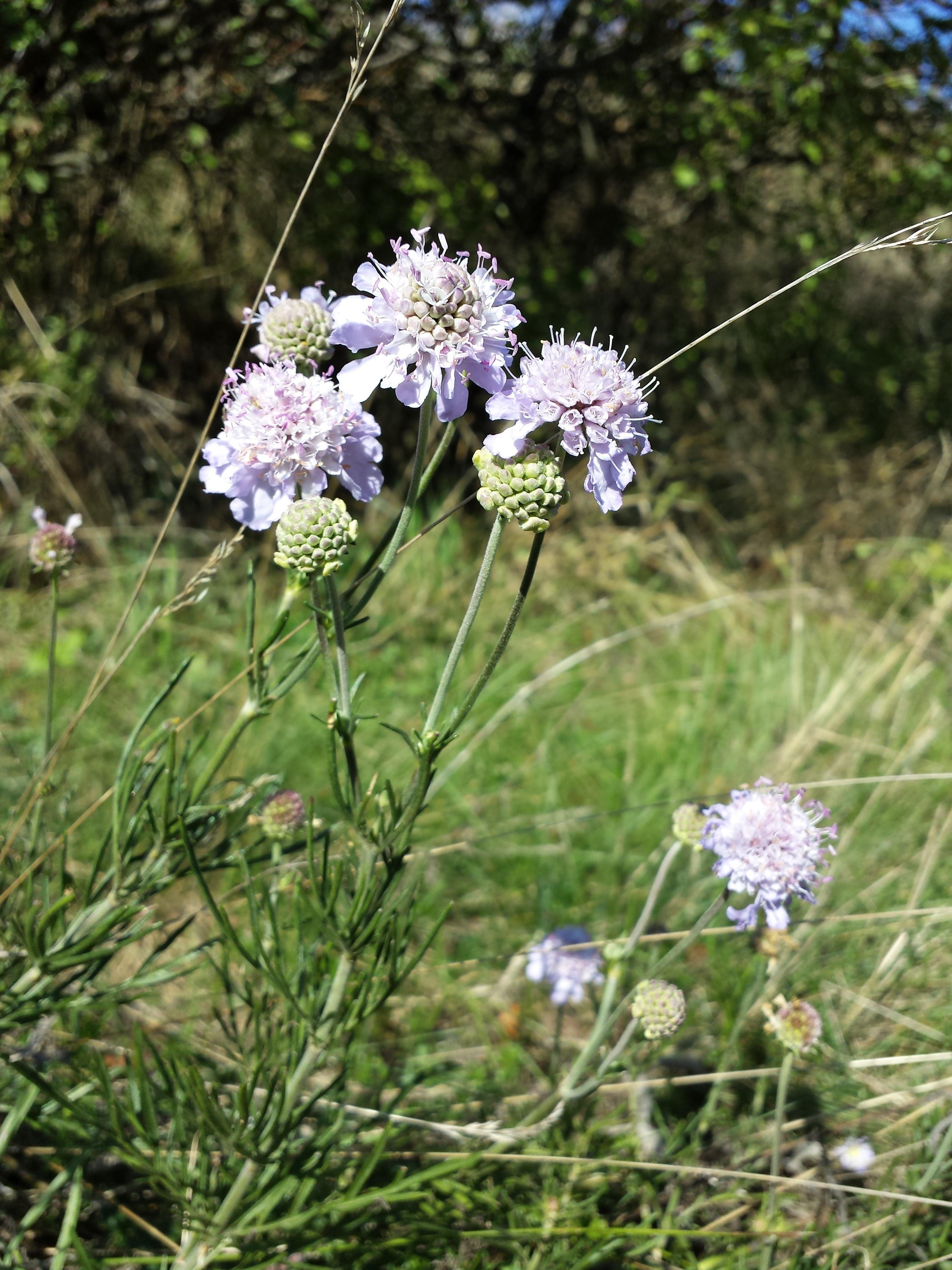 Habitus Taxon: Scabiosa canescens (sensu Fischer et al. EfÖLS 2008) Location: Alte Schanzen, object XII, Floridsdorf, Vienna - ca. 225 m a.s.l. Habitat: dry grassland